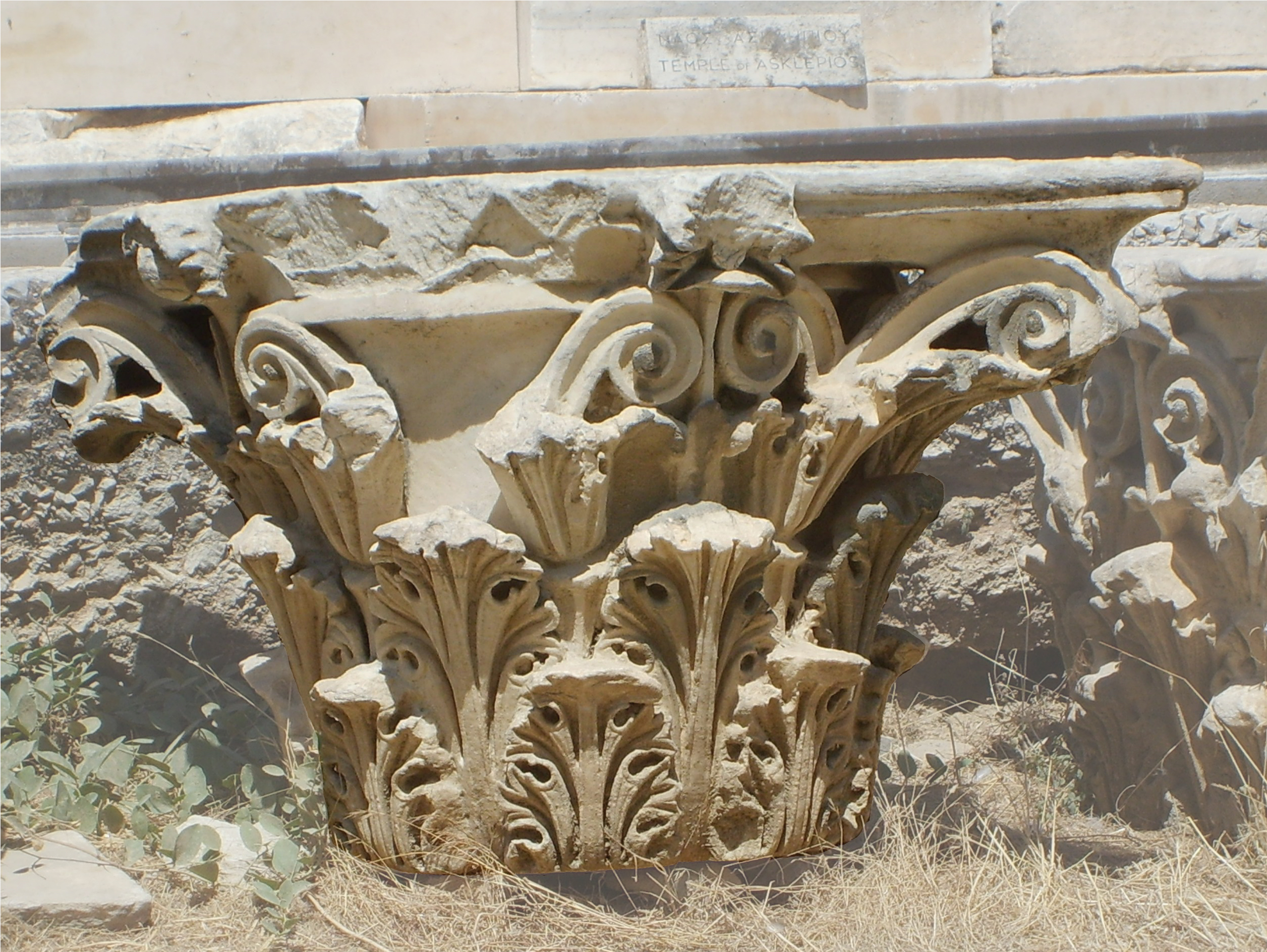 Corinthian capital in the Acropolis of Athens, near the temple of Asclepius (in the background) Image retouchée: mise en valeur du sujet